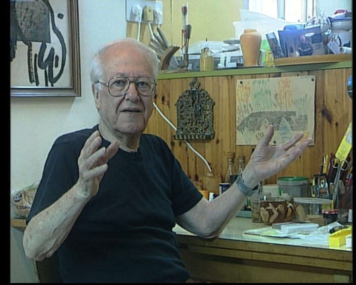 Photograph of Israeli author Amnon Shamosh, taken at his residence